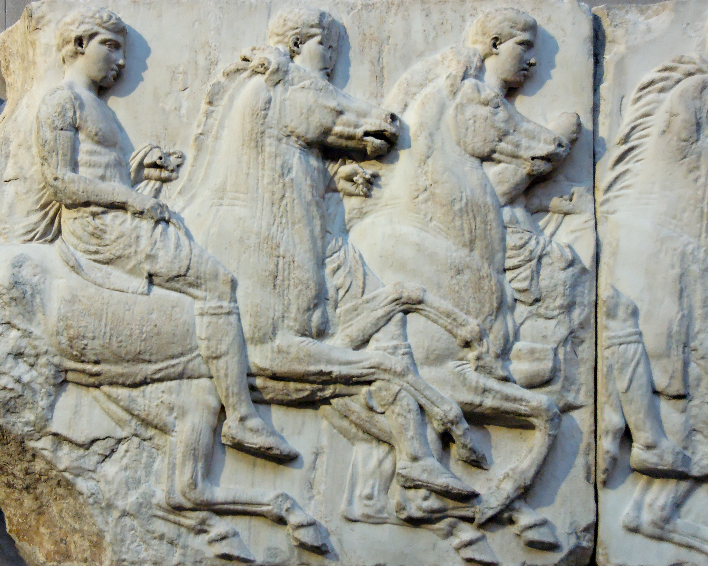 Cavalcade. Blocks X,26 & XI,31 from the south frieze of the Parthenon, ca. 447–433 BC.